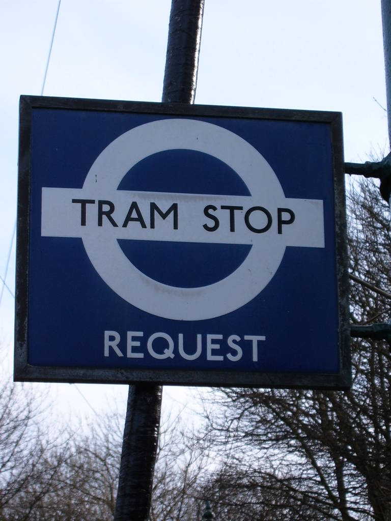 A London Transport Tram Stop at Wakebridge at Crich Tramway Village/The National Tramway Museum